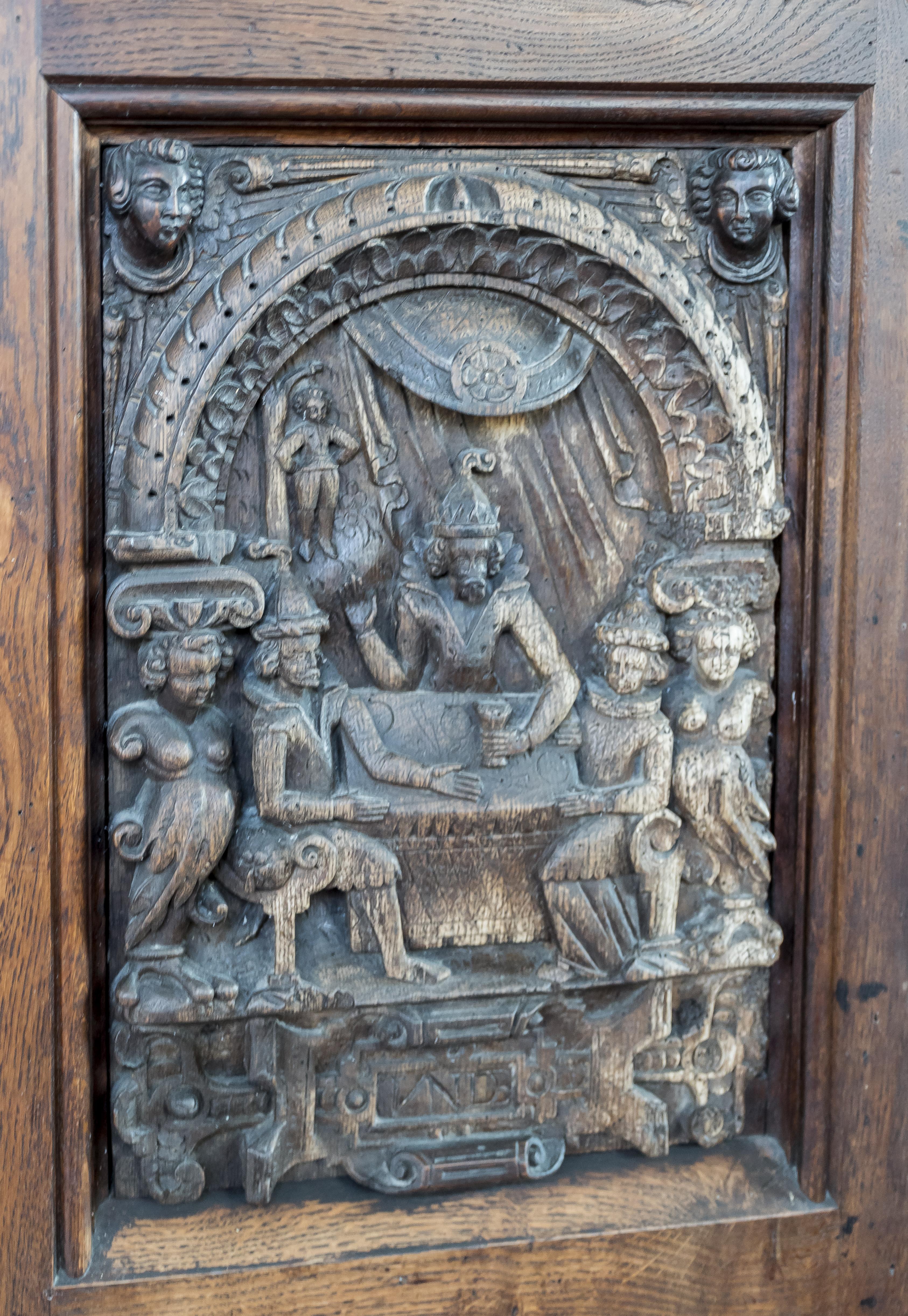 "Elaborately carved in relief, with 8 figures and 8 cherubs in ornamental arcading, they tell the story of Esther and Haman in scenes in which 19 vivid figures take part. We see King Ahasuerus sitting under the canopy of his tent, and a man behind him with a halberd. Esther, who kneels before him, is attended by two maidens, and has come to use her influence on behalf of the Jews. We see Haman summoned to advise the king how to deal with a man he wishes to honour, and Haman, thinking the honour is to fall on his own shoulders, suggesting that the royal crown and raiment be put on the man and that he should ride through the streets on the king’s horse. The next scene shows Haman, with drooping countenance, leading the king’s horse, on which rides his enemy Mordecai in the royal apparel. In the last picture the king and Esther are sitting at the banquet with Haman. Ahasuerus is handing a cup to Haman, who now looks mightily pleased at the honour shown him in being the only guest at the feast, little suspecting that soon he is to be hanged on the gallows he has prepared for Mordecai. The gallows is in the background, with Haman’s tiny figure hanging from it" Arthur Mee 1938.